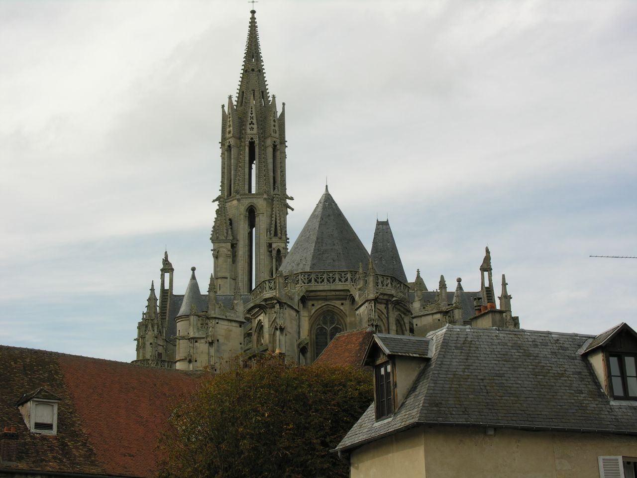 Senlis, cathedral Notre-Dame, view from East.